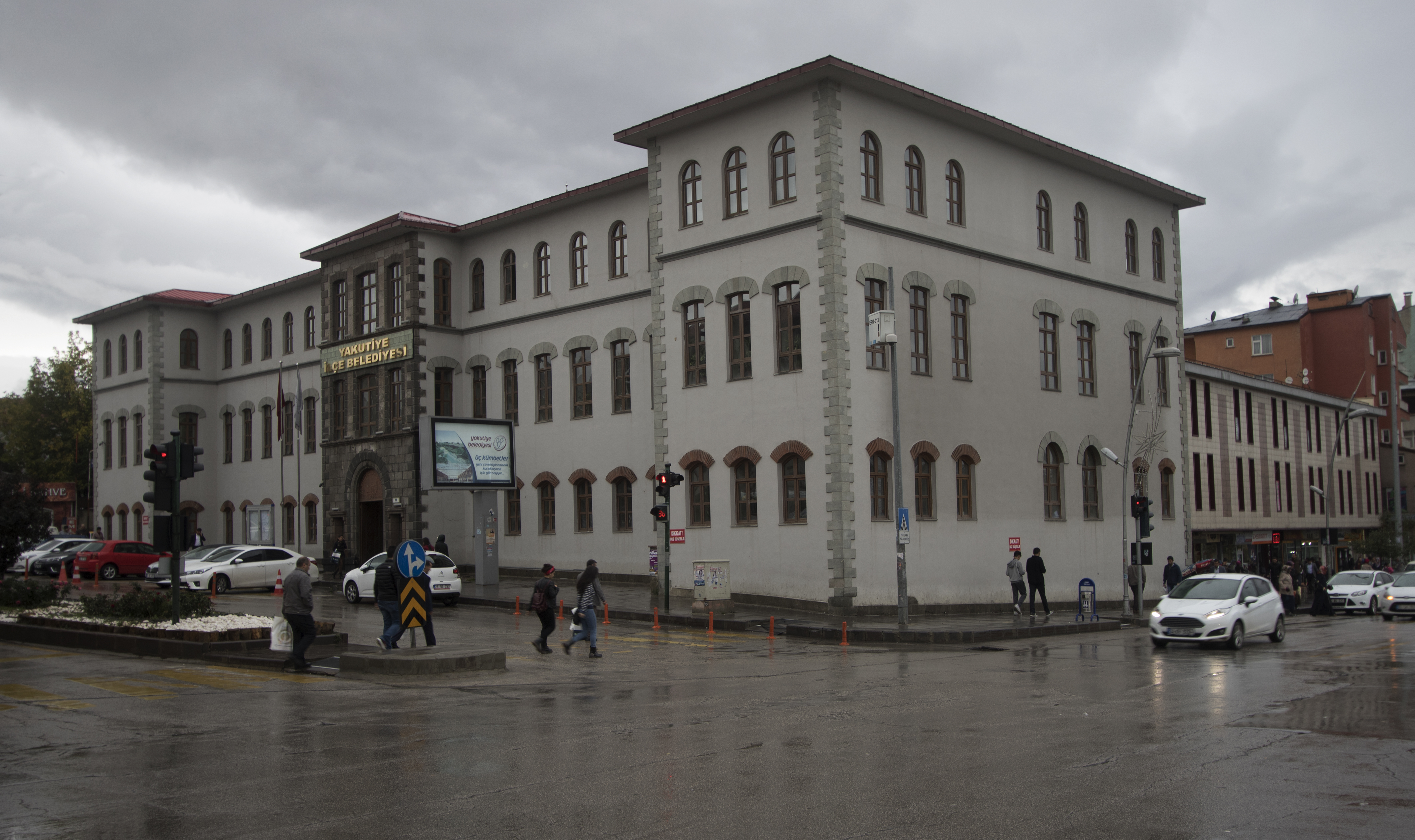 In a rainy day, a view of the Municipality Building of Yakutiye, Erzurum, Turkey.